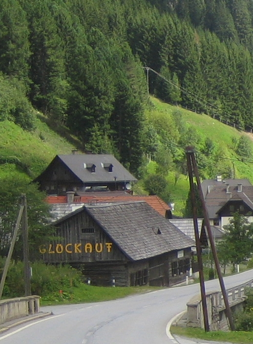 Turrach Montanmuseum